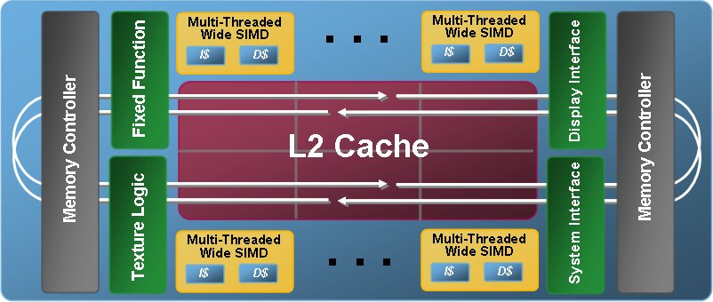 Larrabee block diagram